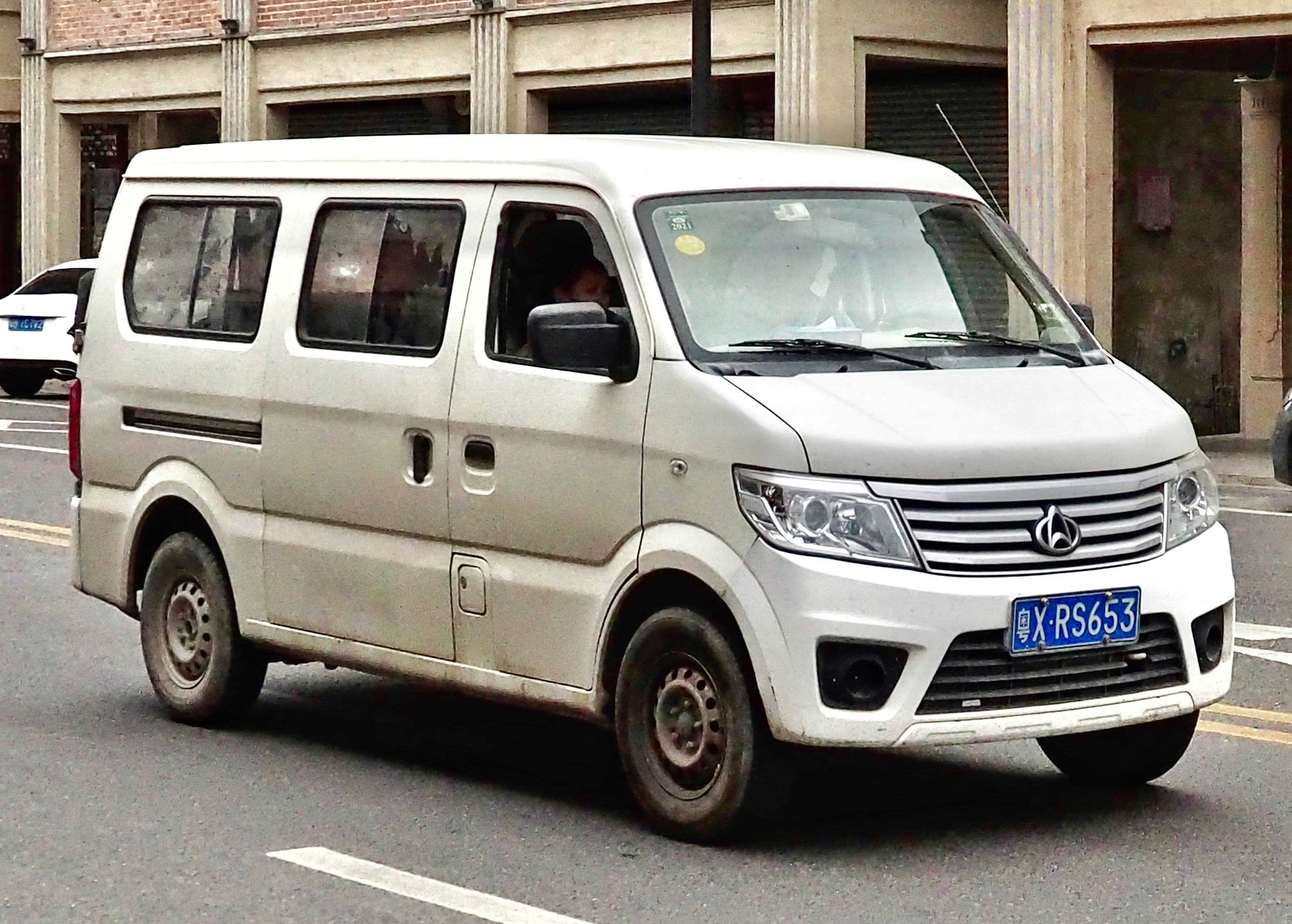 A 2013 Chana Star 9 photographed in Shantou, Guangdong Province, China. 中文（中国大陆）: 一辆2013年的长安之星9，拍摄于中国广东省汕头市。